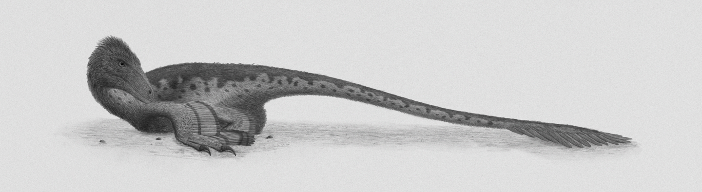 Deinonychus restoration, • Based proportionally on Gregory Pauls skeletal and skull drawings in 'Dinosaurs of the Air' by Gregory S. Paul, 2002, The Johns Hopkins University Press. • Feathers are not yet known for Deinonychus however all maniraptorans with skin impressions show feathers. The specific details of the feathers in this image are speculative but based on other maniraptorans. Most of which show feathers covering the body and remiges on the arms. Velociraptor, a close relative of Deinonychus has quill knobs on its ulna, which show that it has secondaries. Feathers on the legs are known in the dromaeosaur Microraptor, the troodont Anchiornis and the avialan Archaeopteryx . • The colours and/or patterns, as with nearly all reconstructions of prehistoric creatures, are speculative. Note: I often update my images; If you want to post this image on other websites, if possible, please link to the original file here. This will allow others to see the most recent version. Thanks.